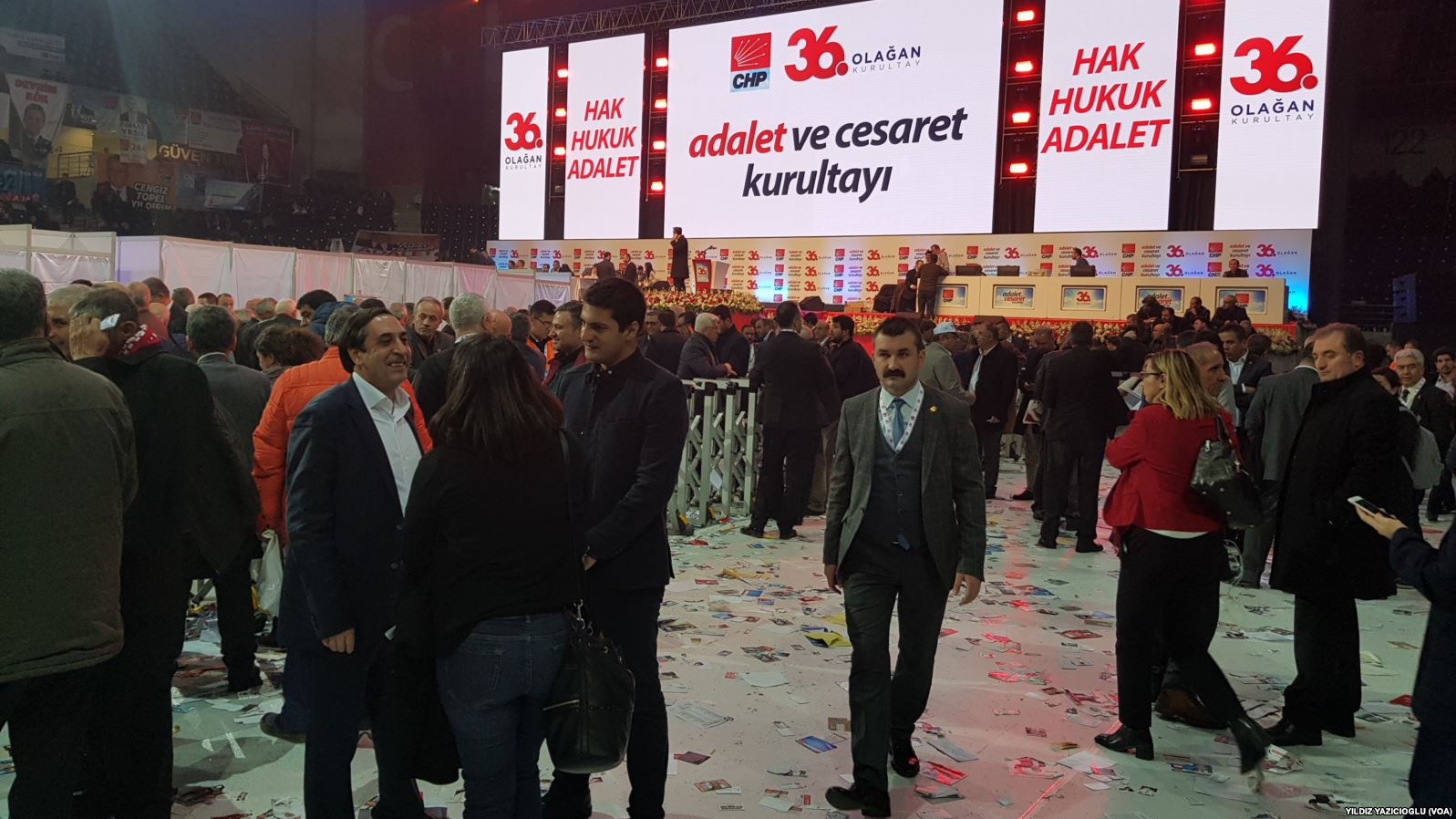 CHP 36th Ordinary Congress